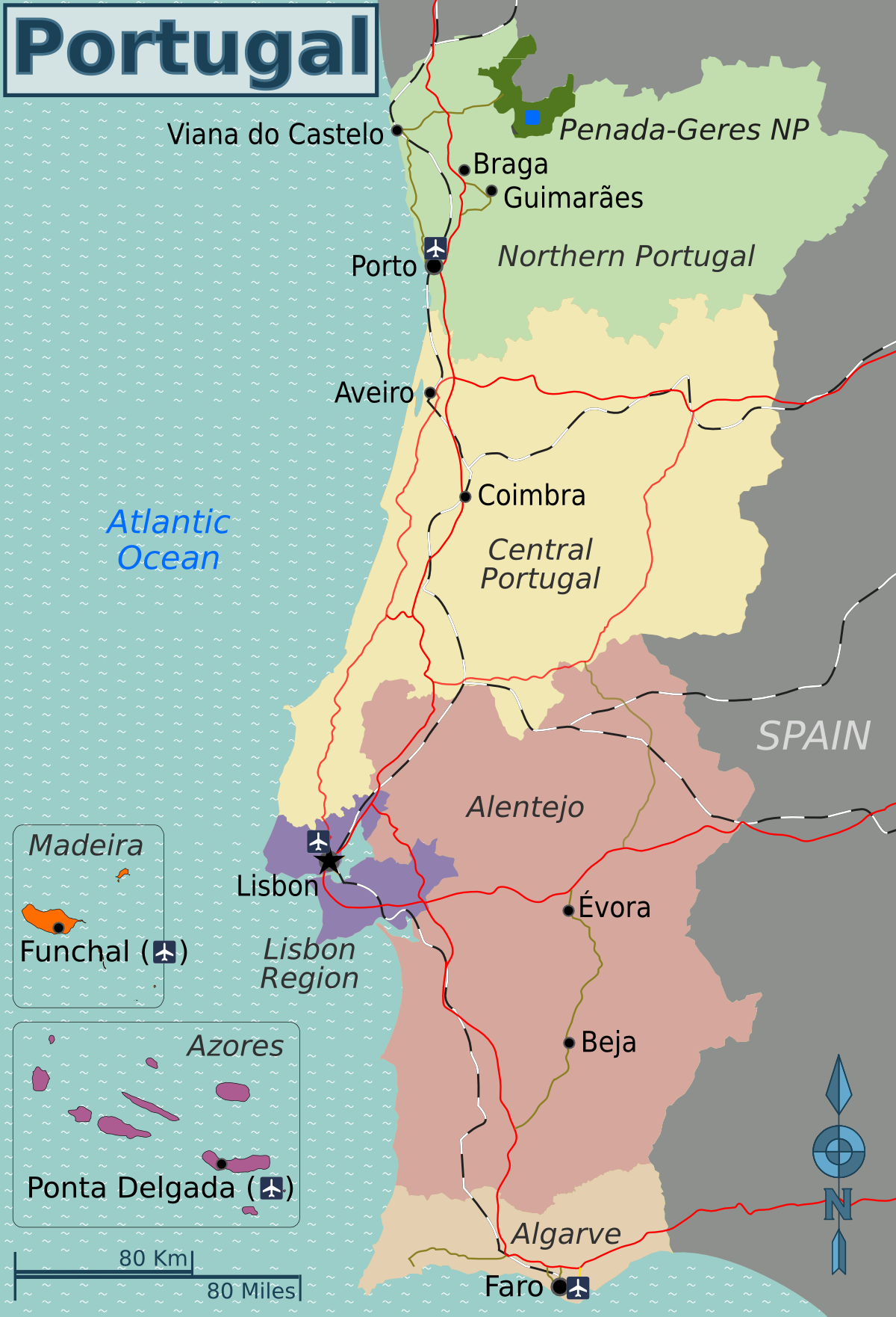 Wikivoyage style map of Portugal's travel regions and major transportation routes. Travel regions are based on NUTS II.